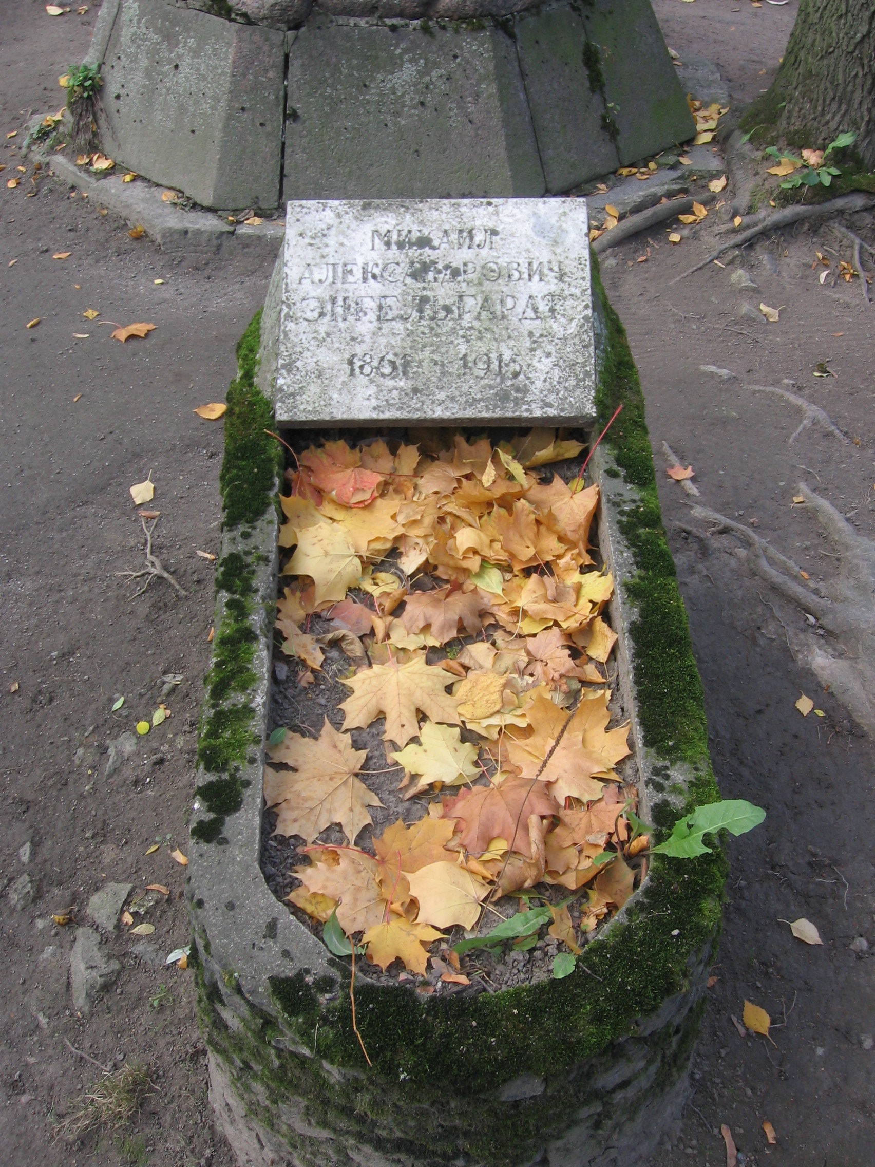 Grave of Mikhail Engelgardt